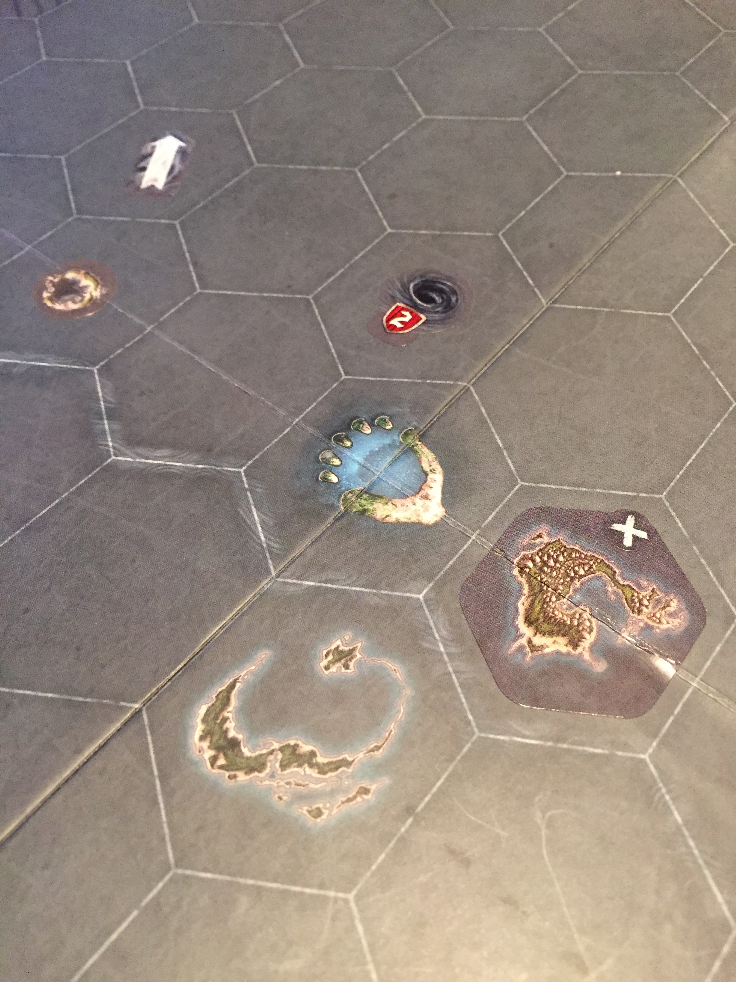 Permanent stickers added to SeaFall game board.